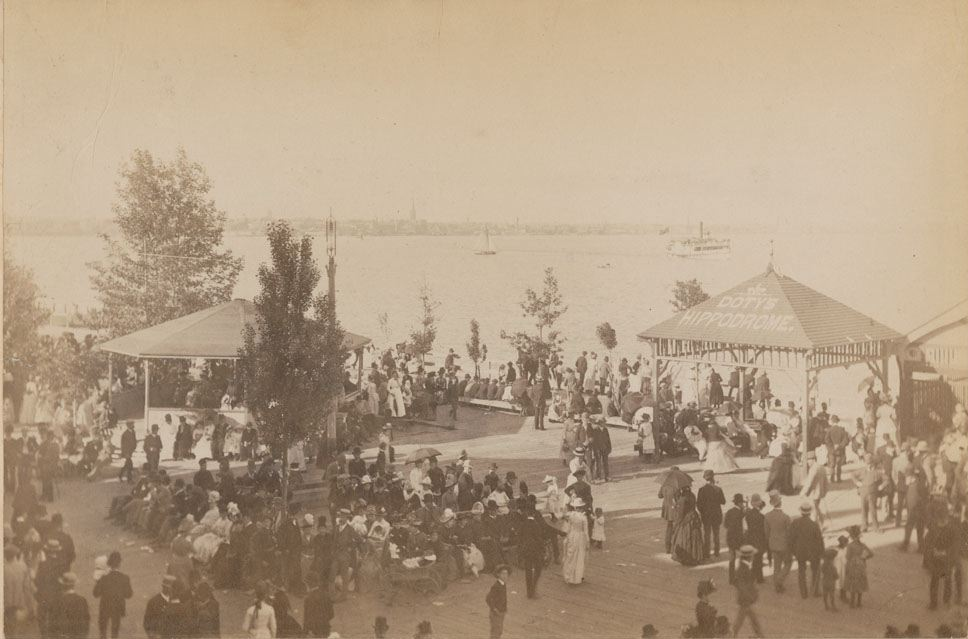 People waiting for the Doty ferry, one of the early ferry operators to the Toronto Islands, next to a Doty's Hippodrome stand. (Toronto Islands, Toronto, Canada). See Toronto Ferry Company.